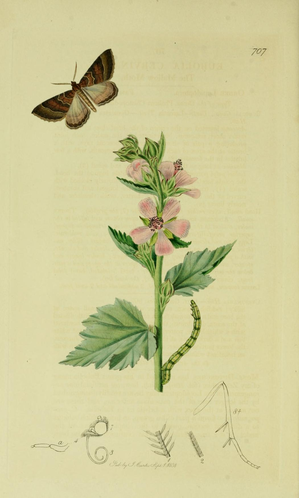 An illustration from British Entomology by John Curtis. Lepidoptera:Larentia clavaria.